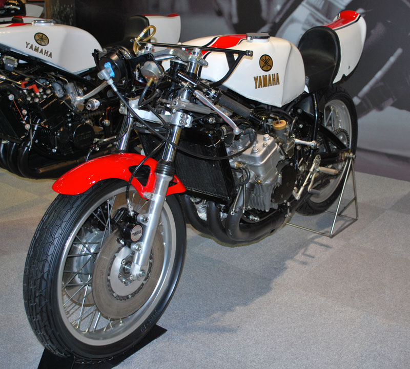 Yamaha YZR500 (OW20 1974, stripped)